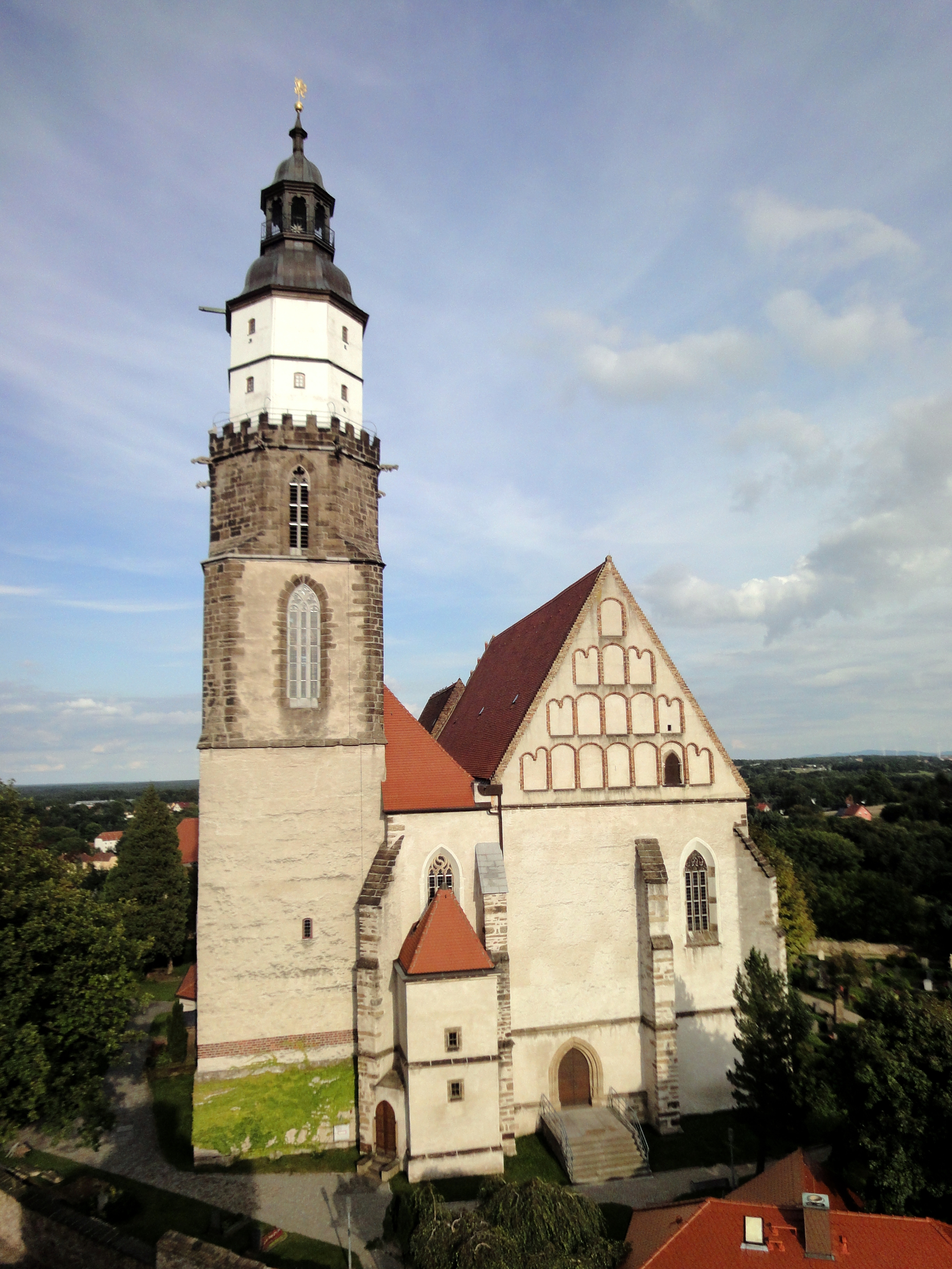 St. Mary's Church in Kamenz in Saxony, Germany, seen from Roter Turm.